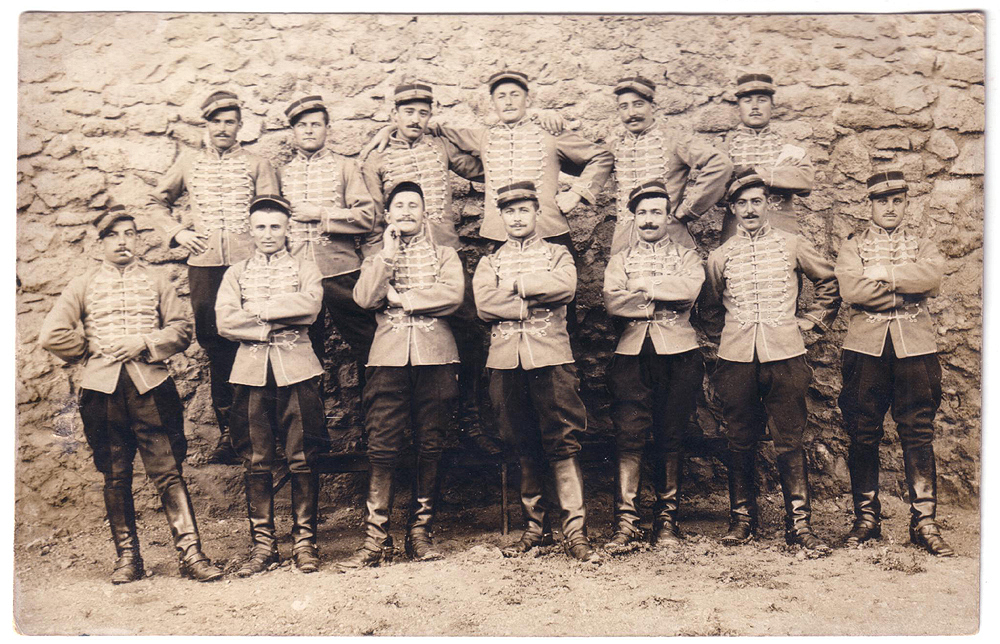 Soldiers of the french 1st Hussars in 1905